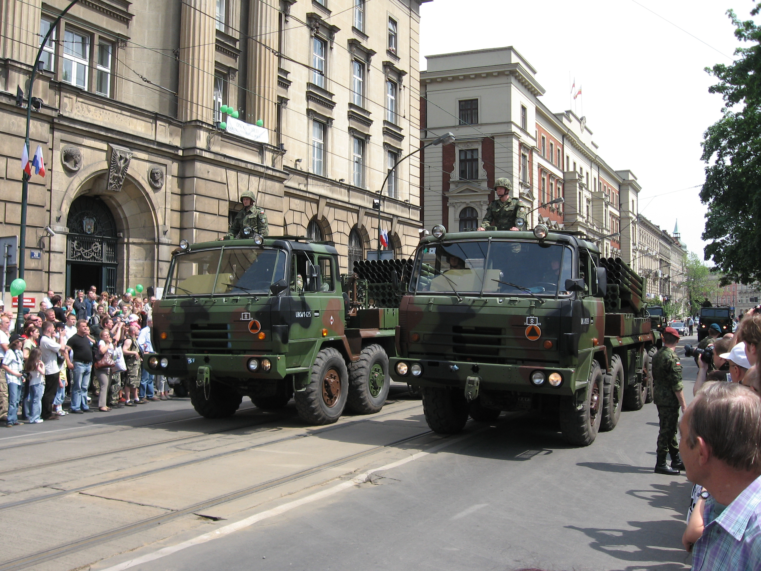 Two Polish RM-70/85 MLRSes on a parade in Kraków.